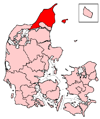 Map of Hjørring County 1793-1970